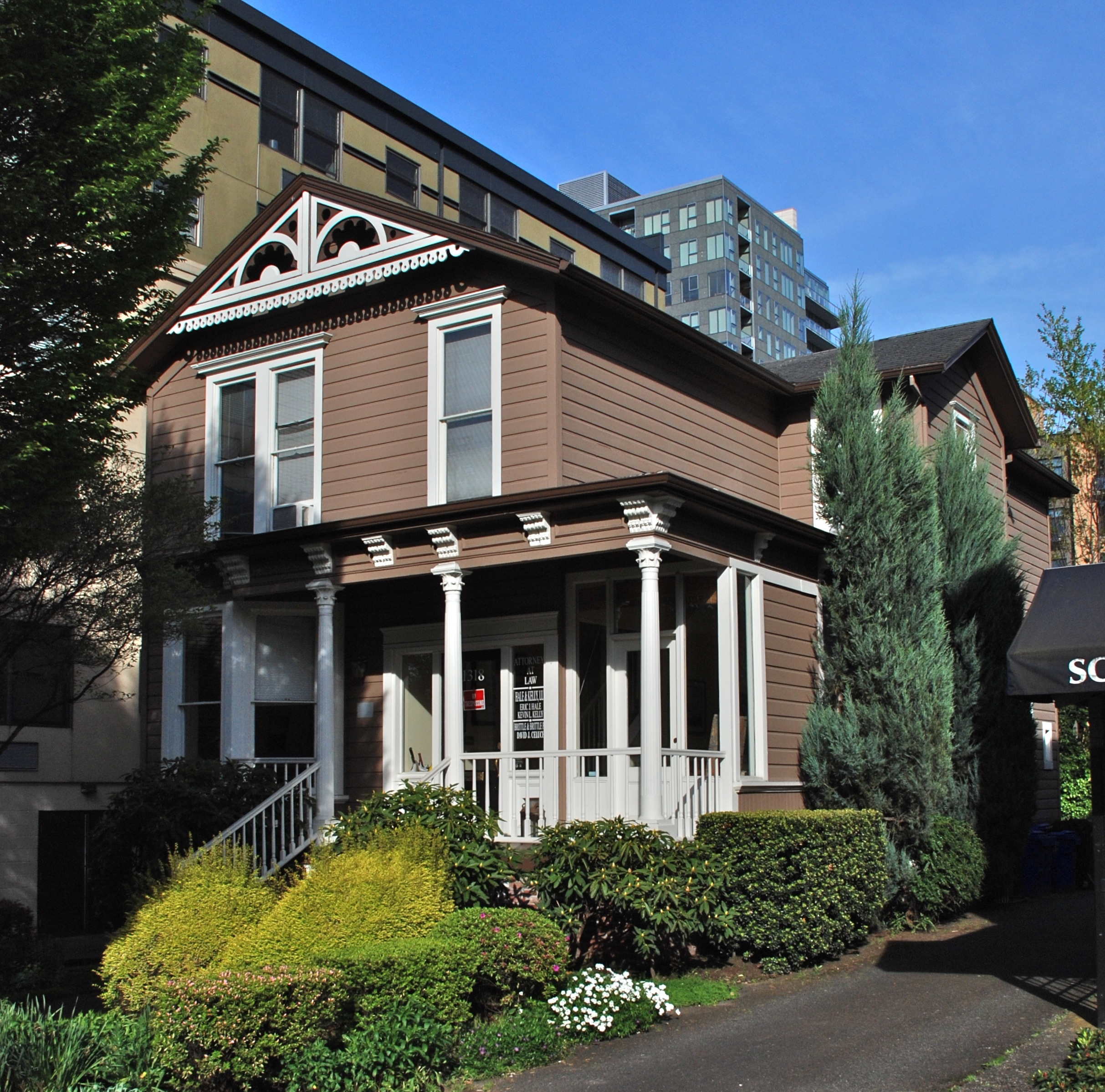 The historic John S. Honeyman House (built 1879), Portland, Oregon, United States, is listed on the U.S. National Register of Historic Places (NRHP).